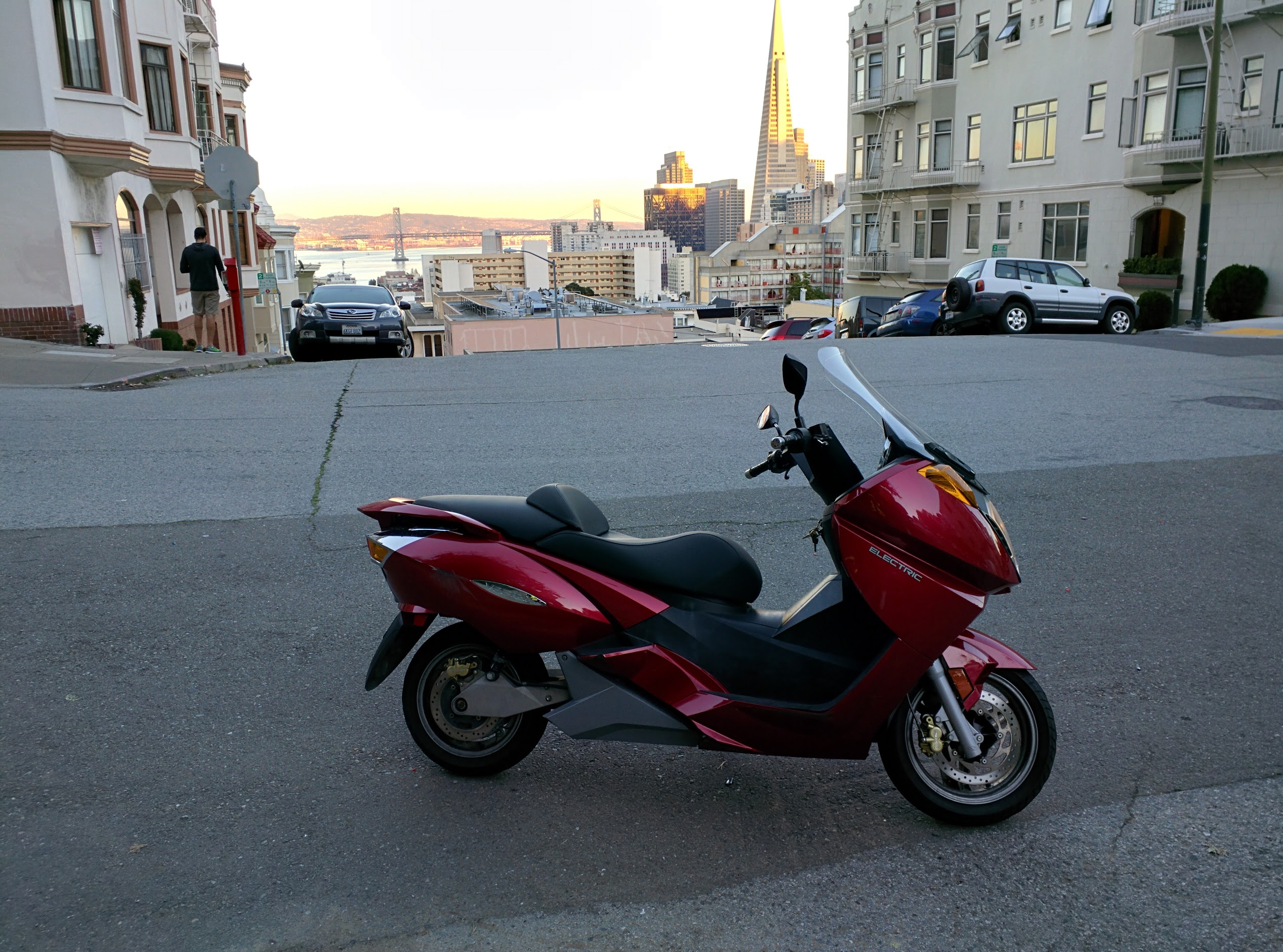 photo of red Vectrix VX-1 in San Francisco